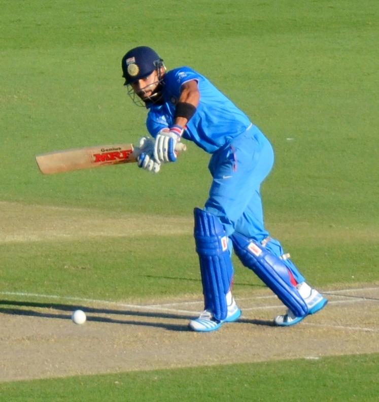 Virat Kohli batting for India against United Arab Emirates during their 2015 Cricket World Cup match at the WACA Ground in Perth, Australia.